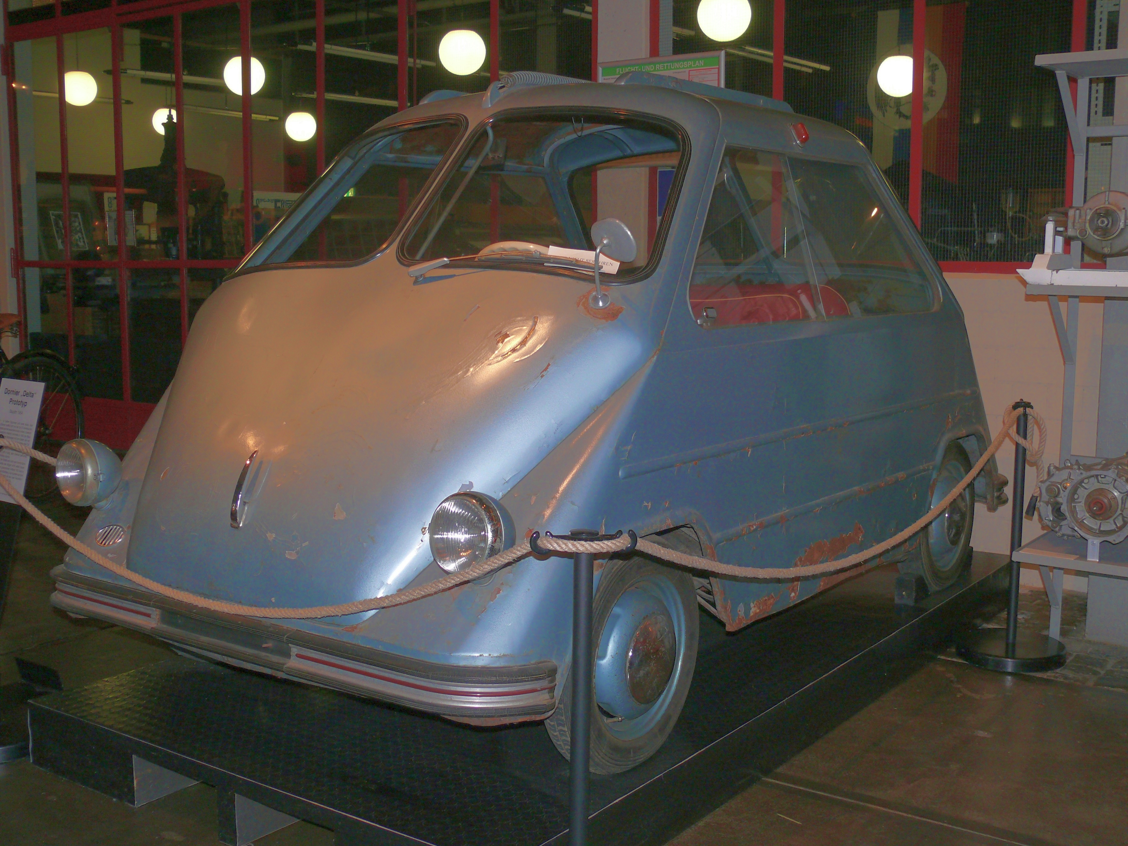 Dornier Delta (Prototype), later build as "Janus" by Zündapp. - Museum for Industrial Culture, Äußere Sulzbacher Straße 60-62, 90491 Nuremberg, Germany.